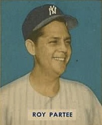 New York Yankees catcher Roy Partee.